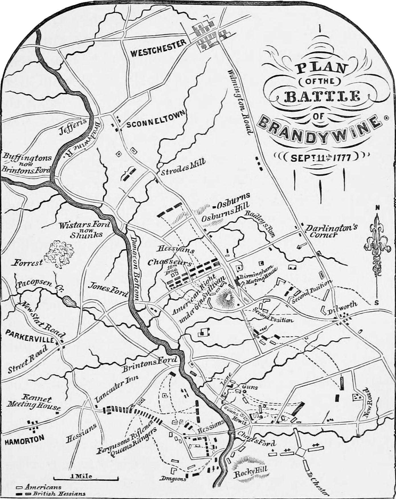 Map of the Battle of Brandywine during the American Revolutionary War.